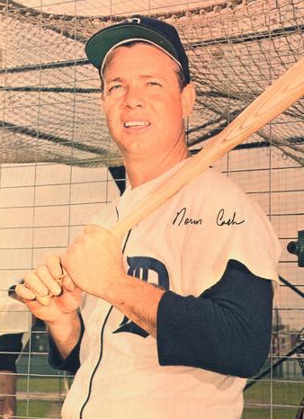 Professional baseball player Norm Cash